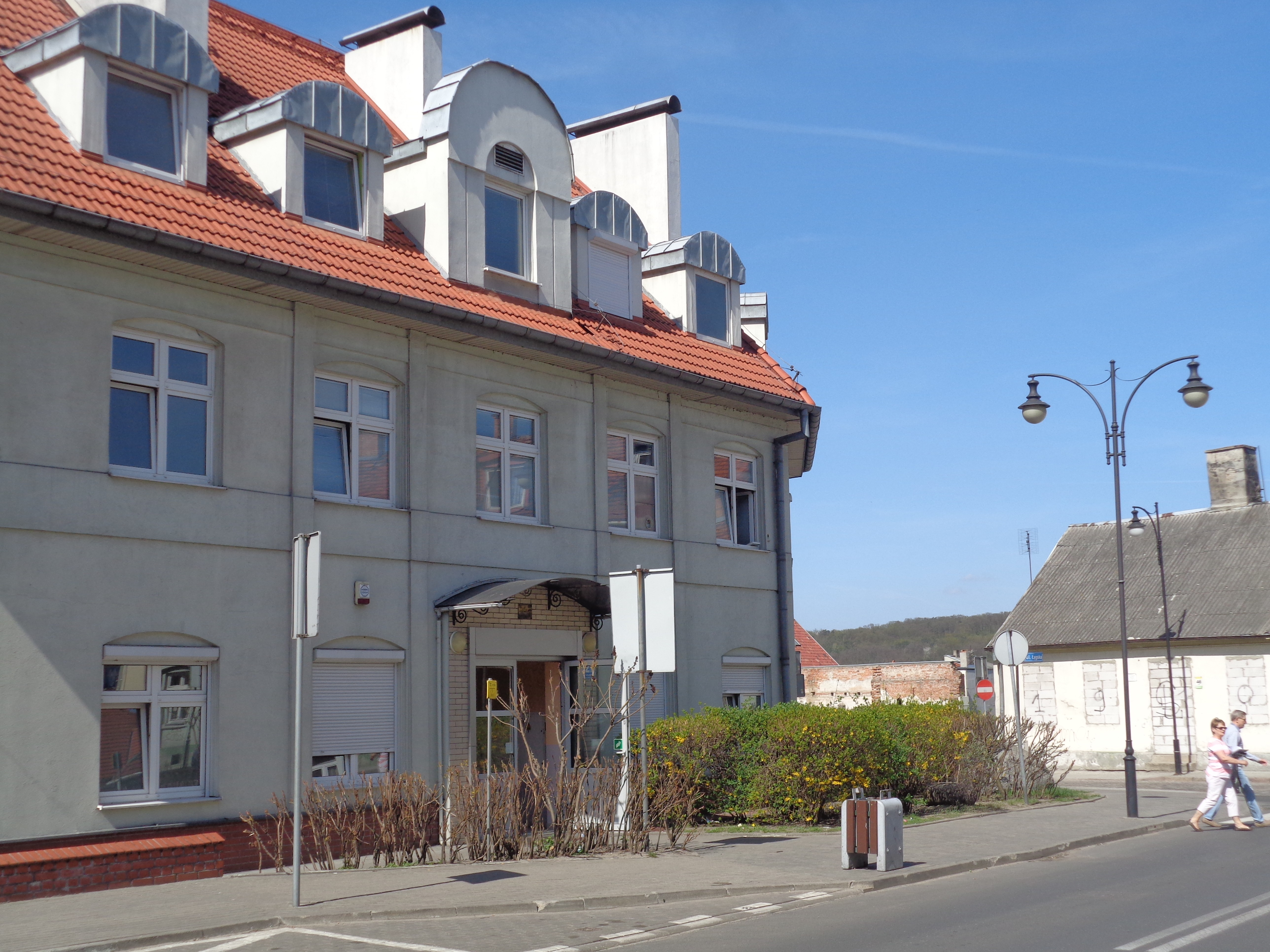 Diagnostic-Medicinal Centre at 2a Królewieckie street in Włocławek, agency of Regional Oncology Centre named of professor Franciszek Łukaszczyk in Bydgoszcz, built in 2002 year.